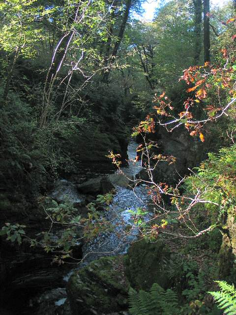 Afon Cynfal. Taken looking west off the damaged stone bridge (in heavy rain a few years back), the River Cynfal at can be seen leading down Ceunant Cynfal.